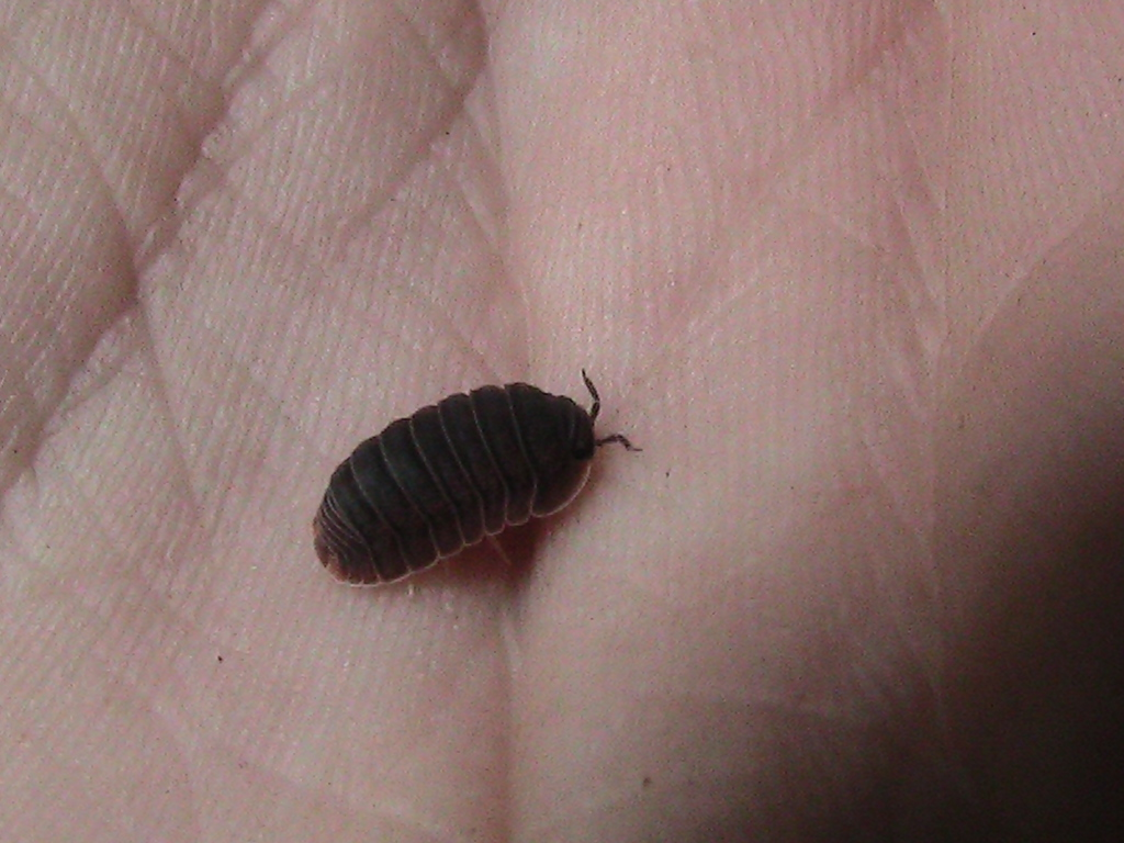 A little cochineal in my hand.